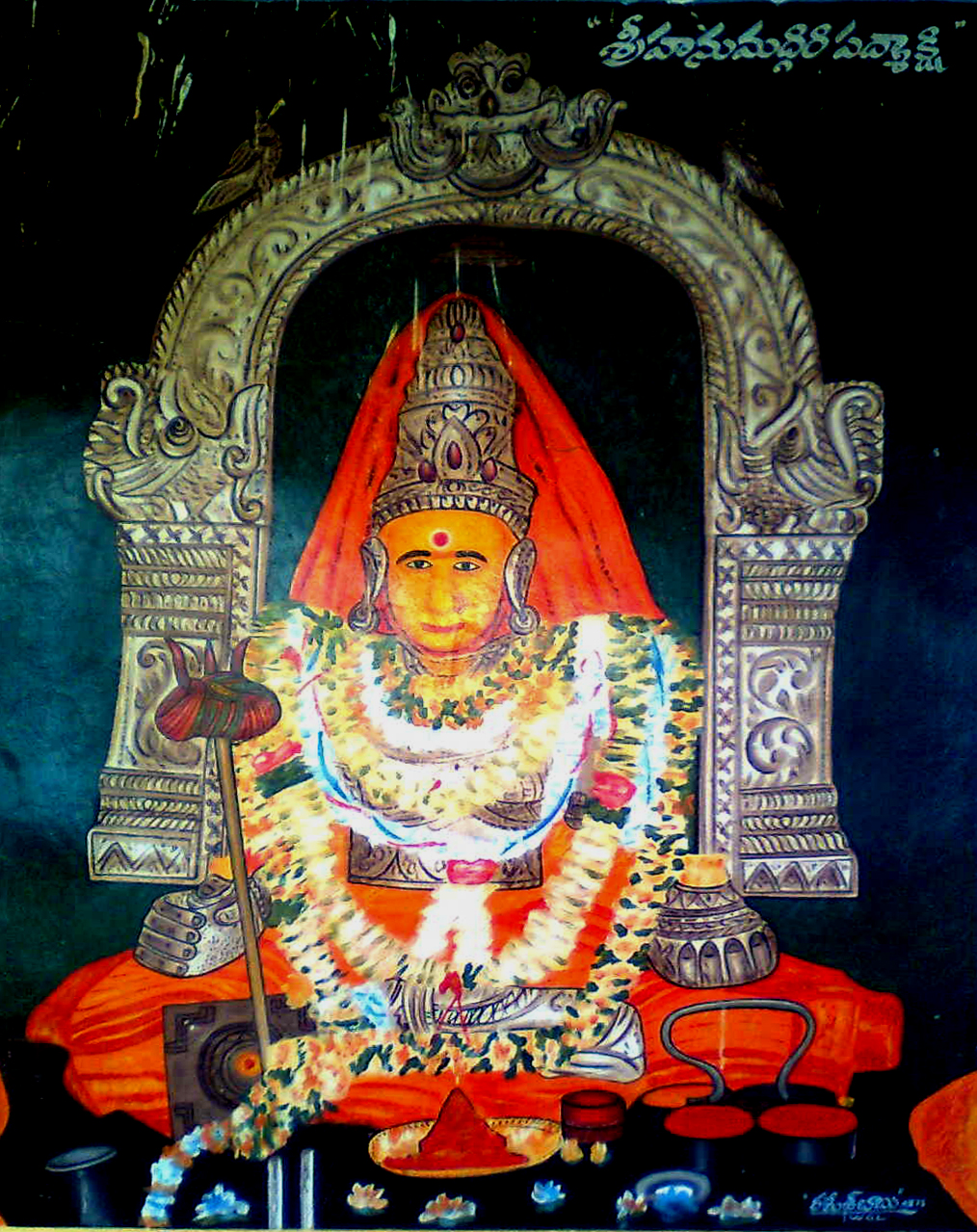 A 21st century Painting of Godess Padmakshi on temple walls at Padmakshi Gutta, Hanamakonda, Warangal